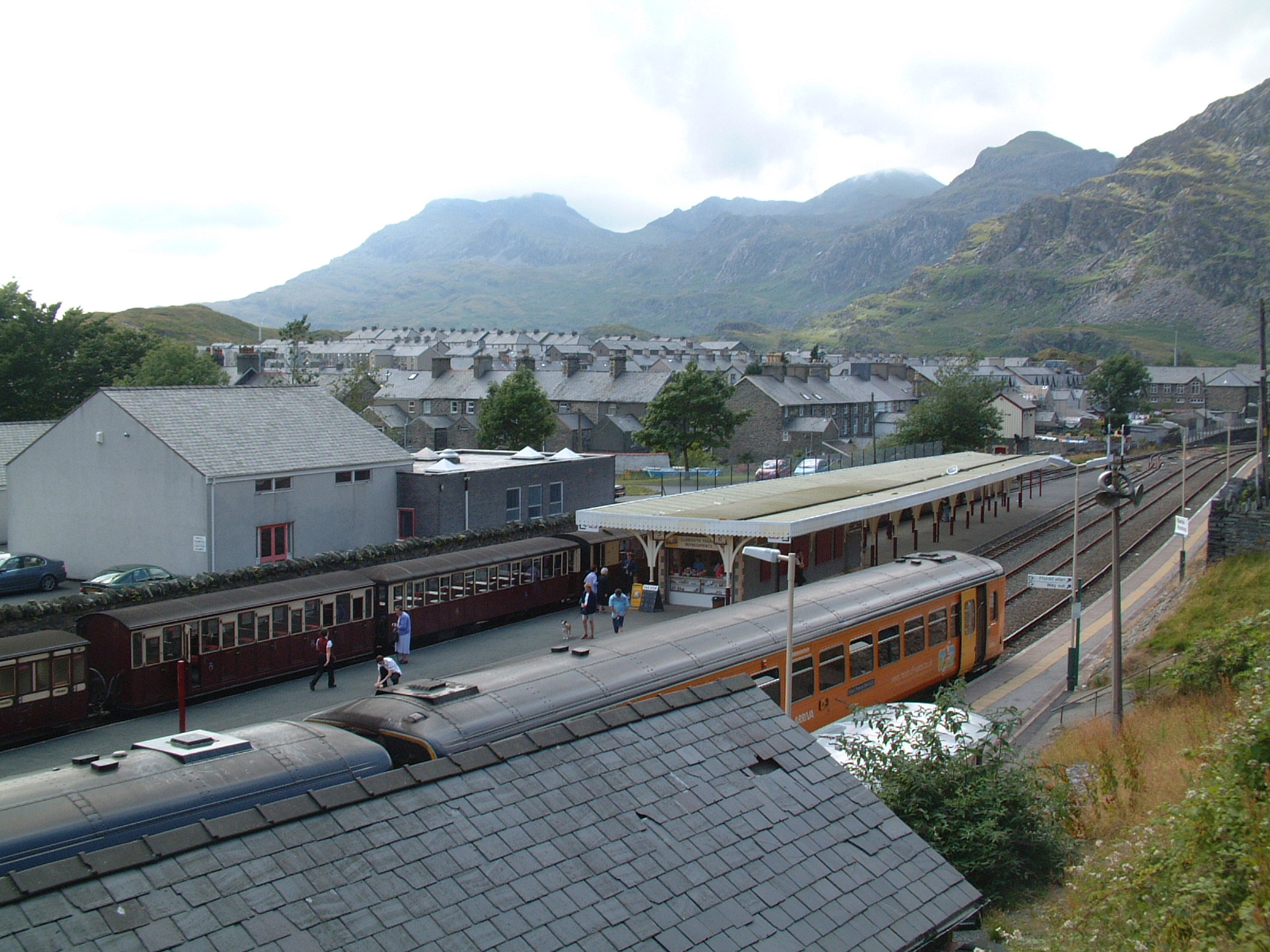 Blaenau Ffestiniog railway station.